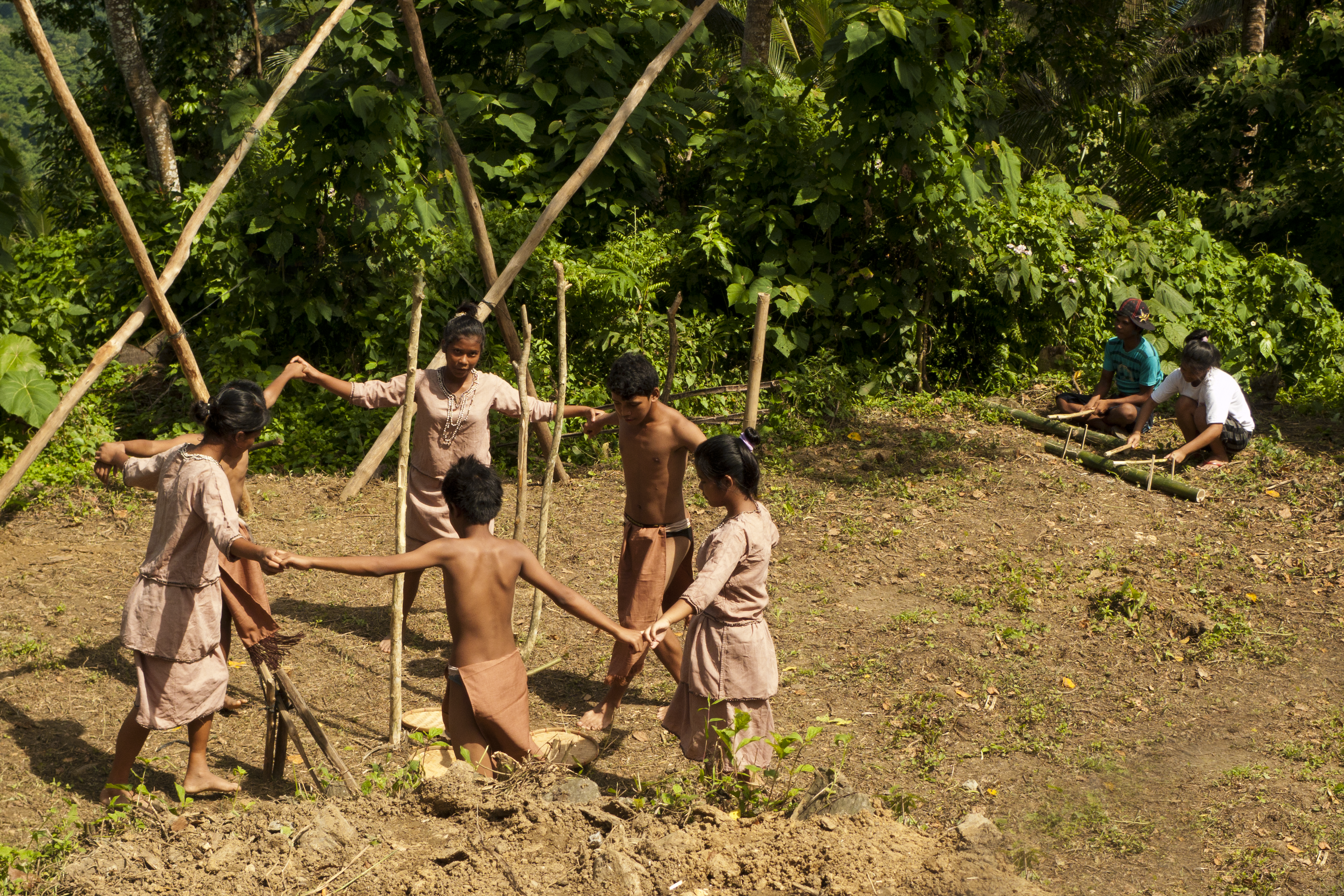 They were describing the rituals the Iraya Mangyan people do when farming a new plot of land. First, they pray and make offerings and sleep on the land for 3 days. If the dreams are good ones, then they can clear the land.